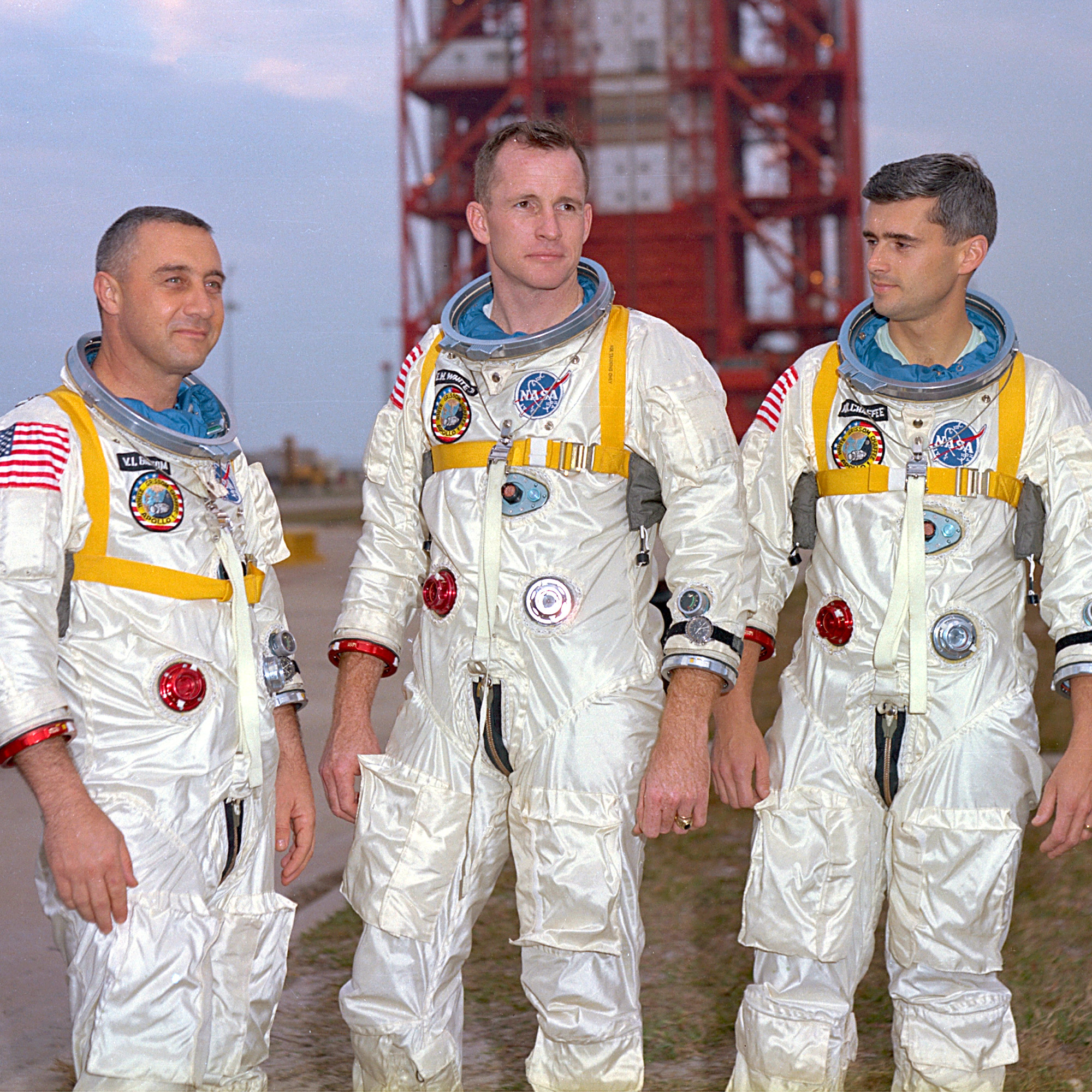 Astronauts (left to right) Gus Grissom, Ed White, and Roger Chaffee, pose in front of Launch Complex 34 which is housing their Saturn 1 launch vehicle. The astronauts died ten days later in a fire on the launch pad.